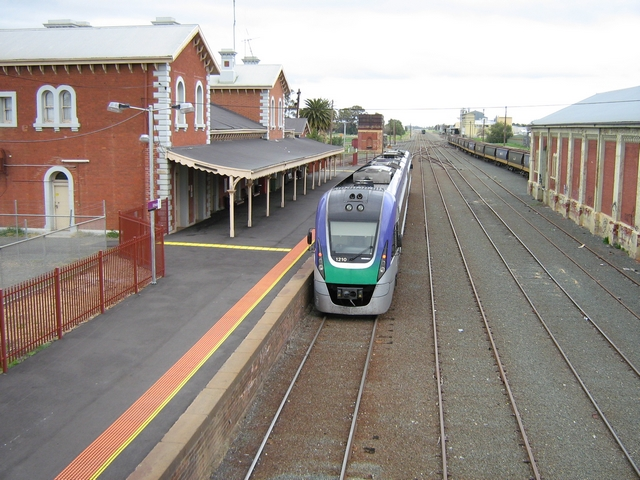 This is a picture of the Echuca Railway Station.